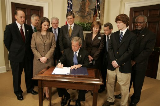 President George W. Bush signs S. 2634, the Garrett Lee Smith Memorial Act, in the Roosevelt Room Thursday, Oct. 21, 2004. The act authorizes the spending of $82 million for youth suicide prevention programs at college campus mental health centers. The legislation is named for Garret Smith, the son of Sen. Gordon Smith, R-Ore., and Sharon Smith, who are standing directly behind the President. Their son committed suicide Sept. 8, 2003. White House photo by Paul Morse